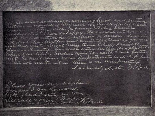 Example of slate writing performed by spiritualist mediums.